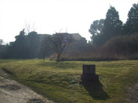 The market cross in Navenby in Lincolnshire, England.